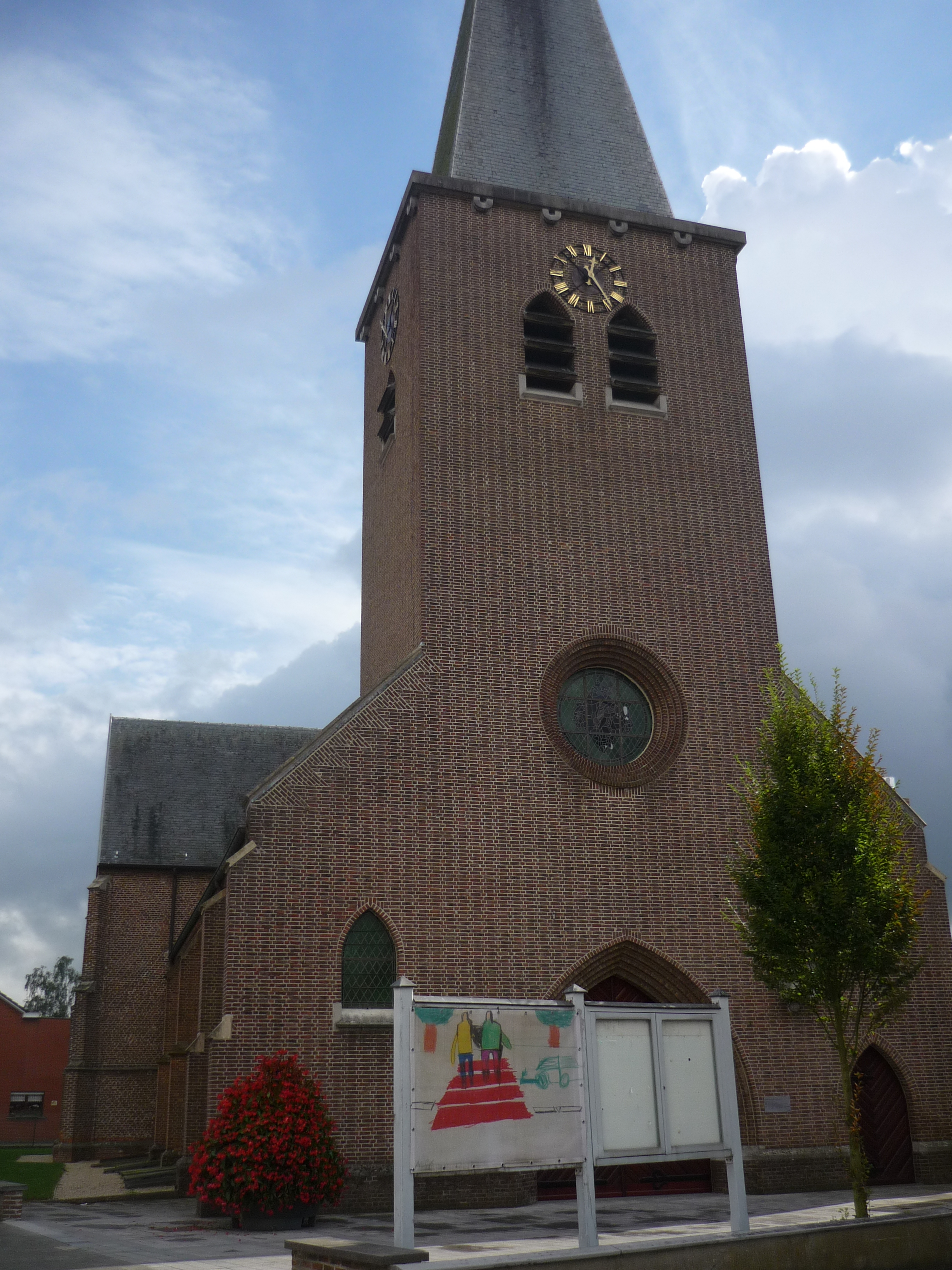 church Sint-Job Kerklei 46